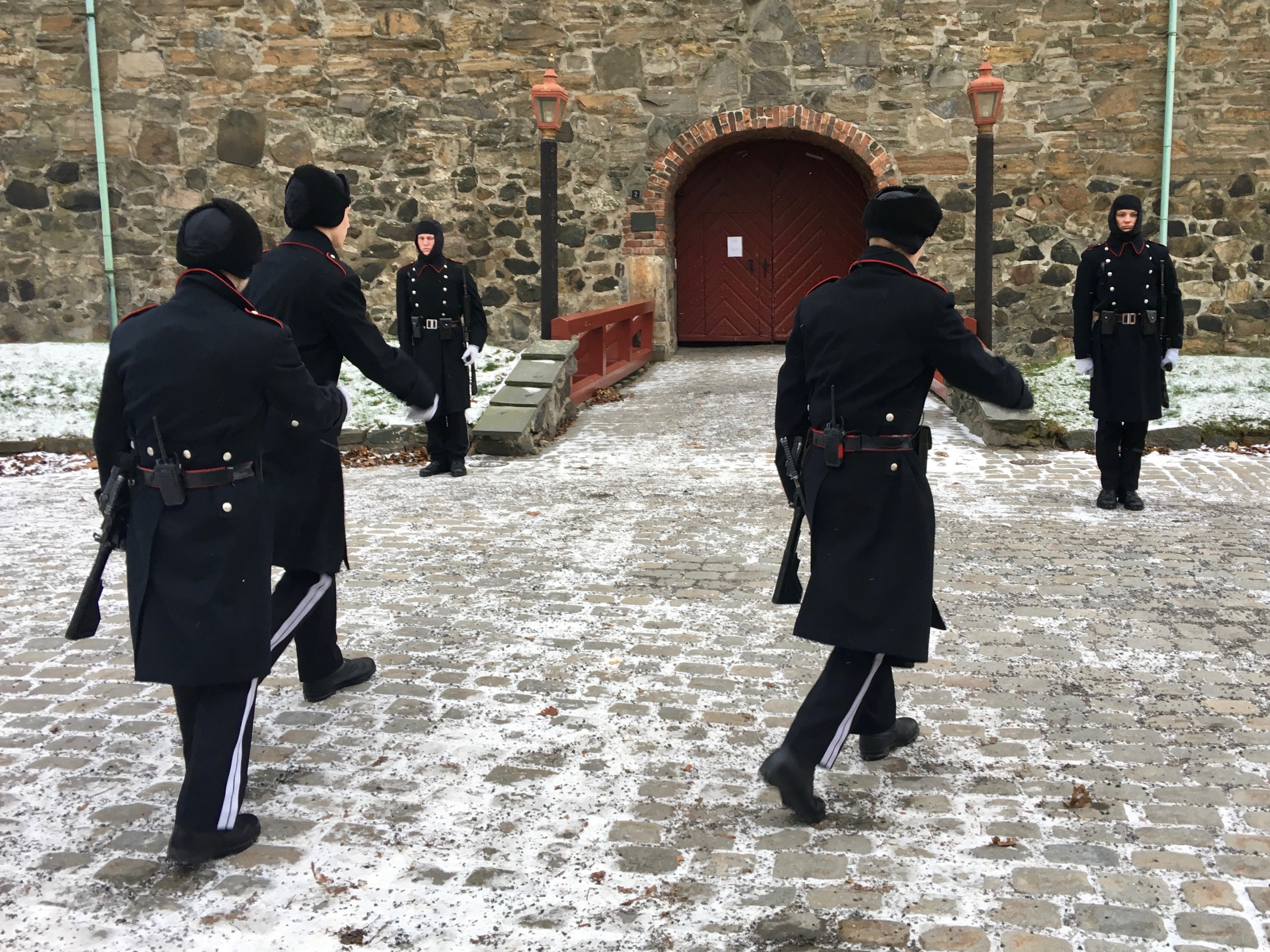 Changing of the guard inside Akershus fortress in Oslo, Norway. Guardsmen in winter uniforms outside "Nordfløyen" of Akershus Castle. November 30th, 2017. Hans Majestet Kongens Garde (HMKG) the Royal Guards in Norway, is a battalion of the Norwegian Army. It serves as the Norwegian King's bodyguards, guarding the royal residences (the Royal Palace in Oslo, Bygdøy Kongsgård and Skaugum) and Akershus Fortress in Oslo, and is also the main infantry unit responsible for the defence of Oslo.